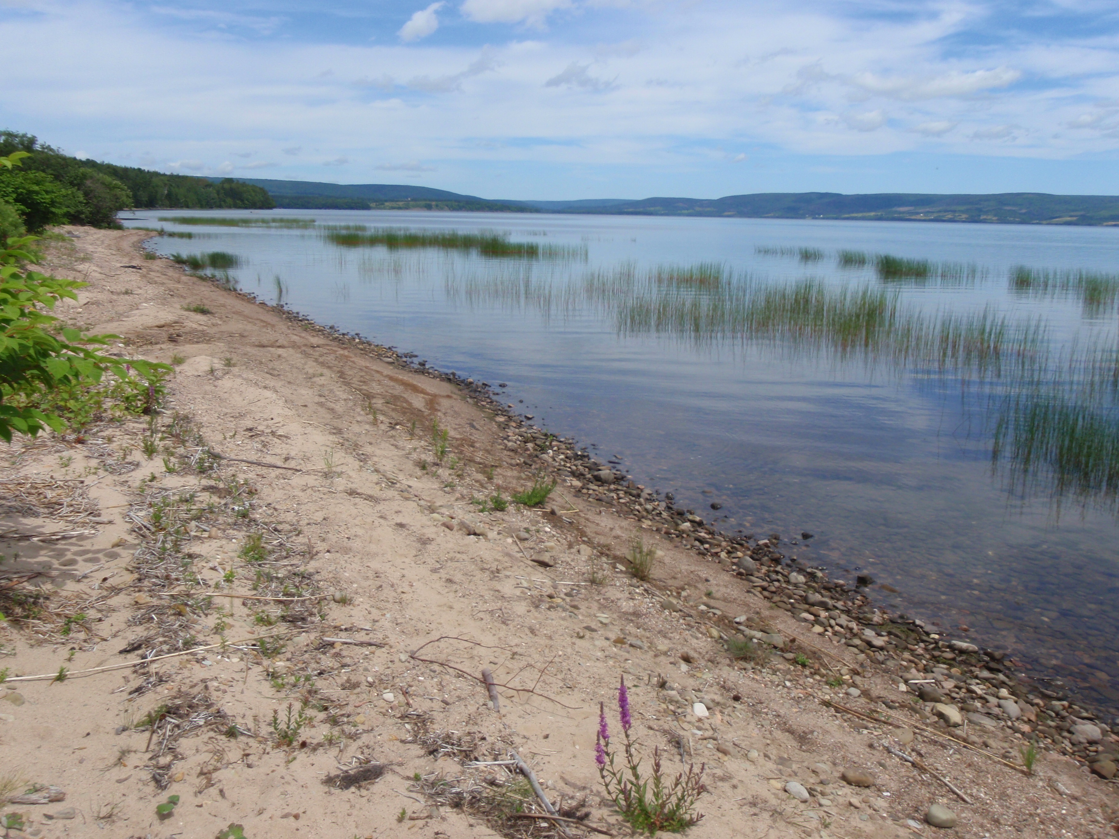 Looking north on the west side of Lake Ainslie, Nova Scotia, near Hayes River Road